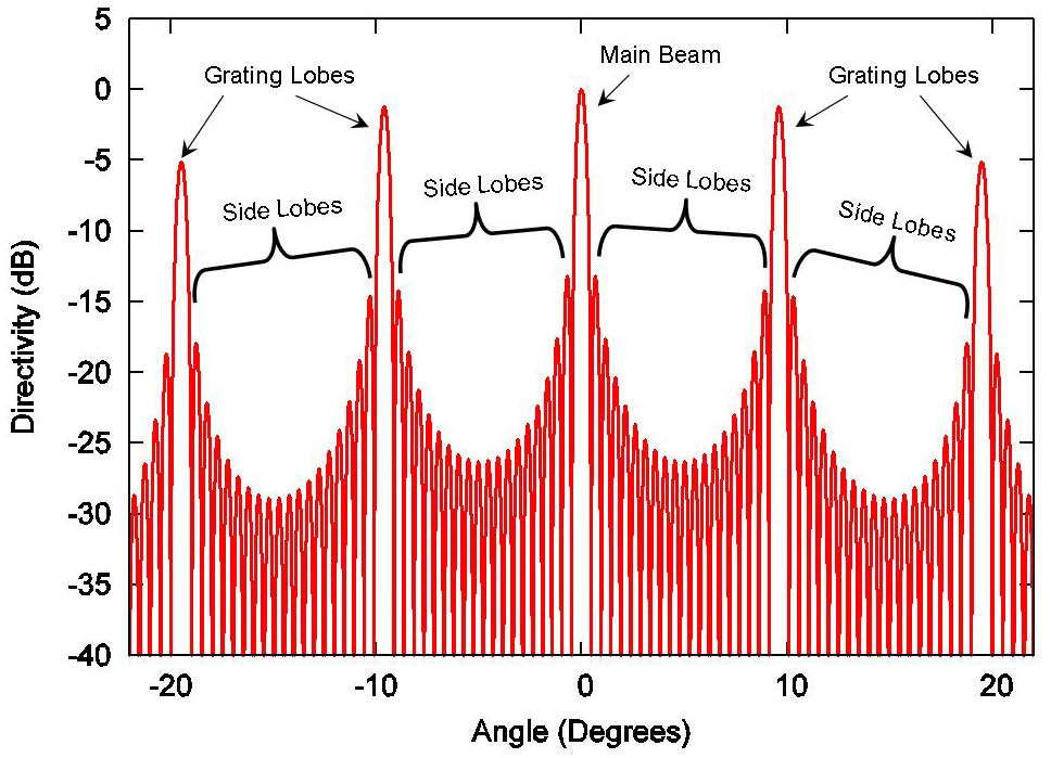 Sample array pattern of a 20 element array with a inter-element spacing